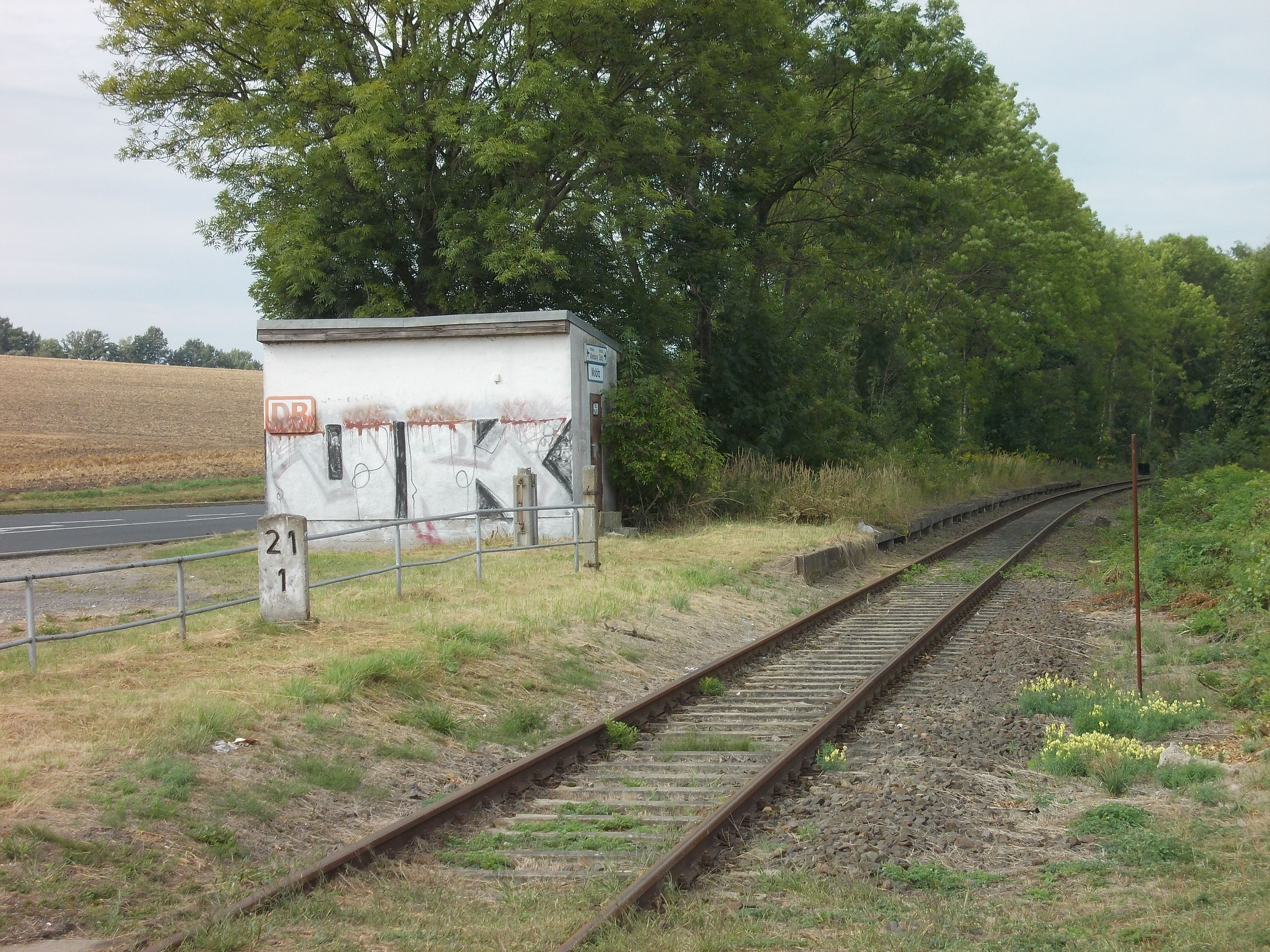 Molbitz train station (Rositz, district of Altenburger Land, Thuringia)